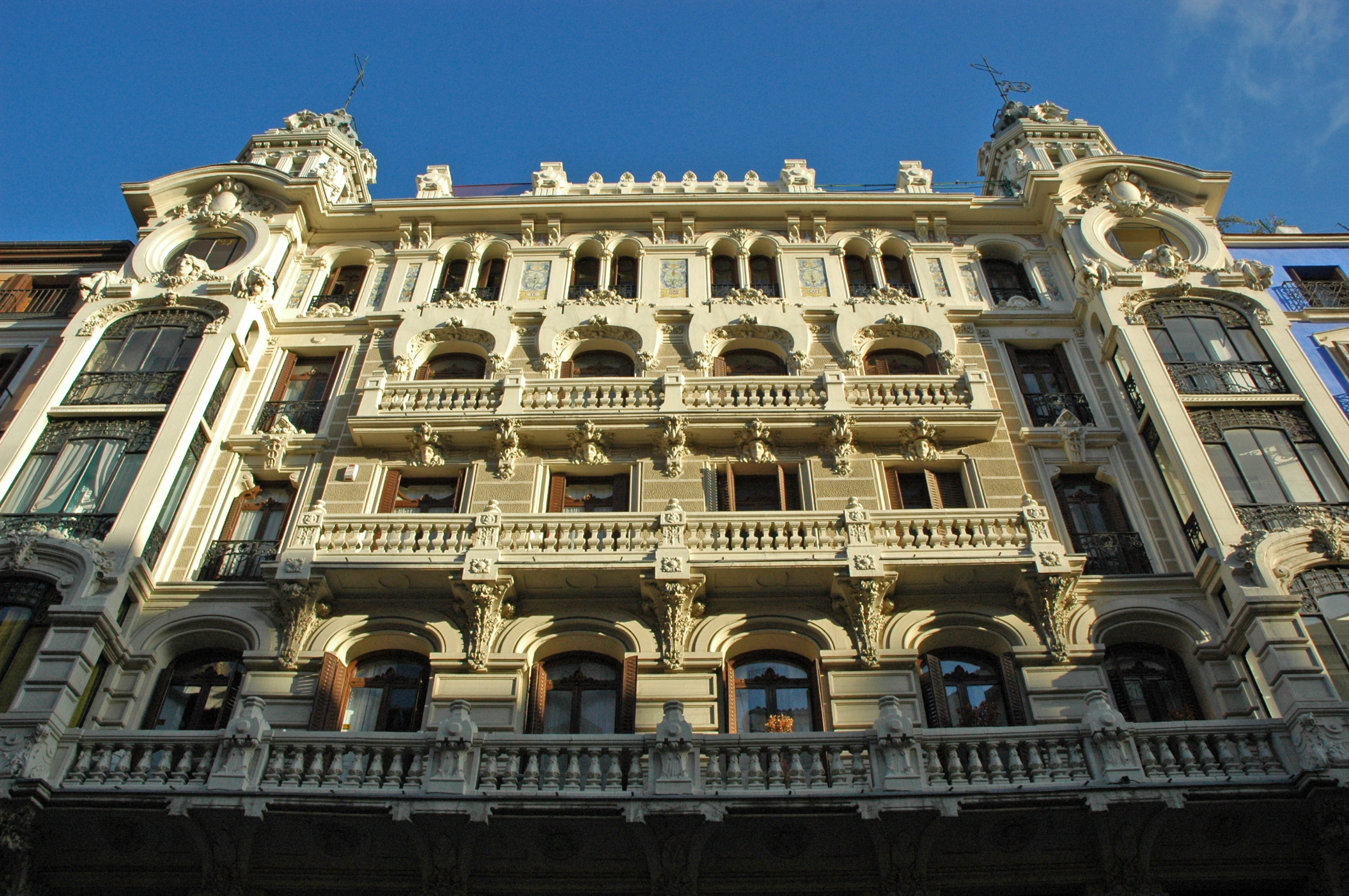 Former Compañía Colonial building, at 16 Calle Mayor (street) in Madrid (Spain). Façade was projected by Miguel Mathet Coloma and Jerónimo Pedro Mathet Rodríguez, and built from 1907 to 1909.